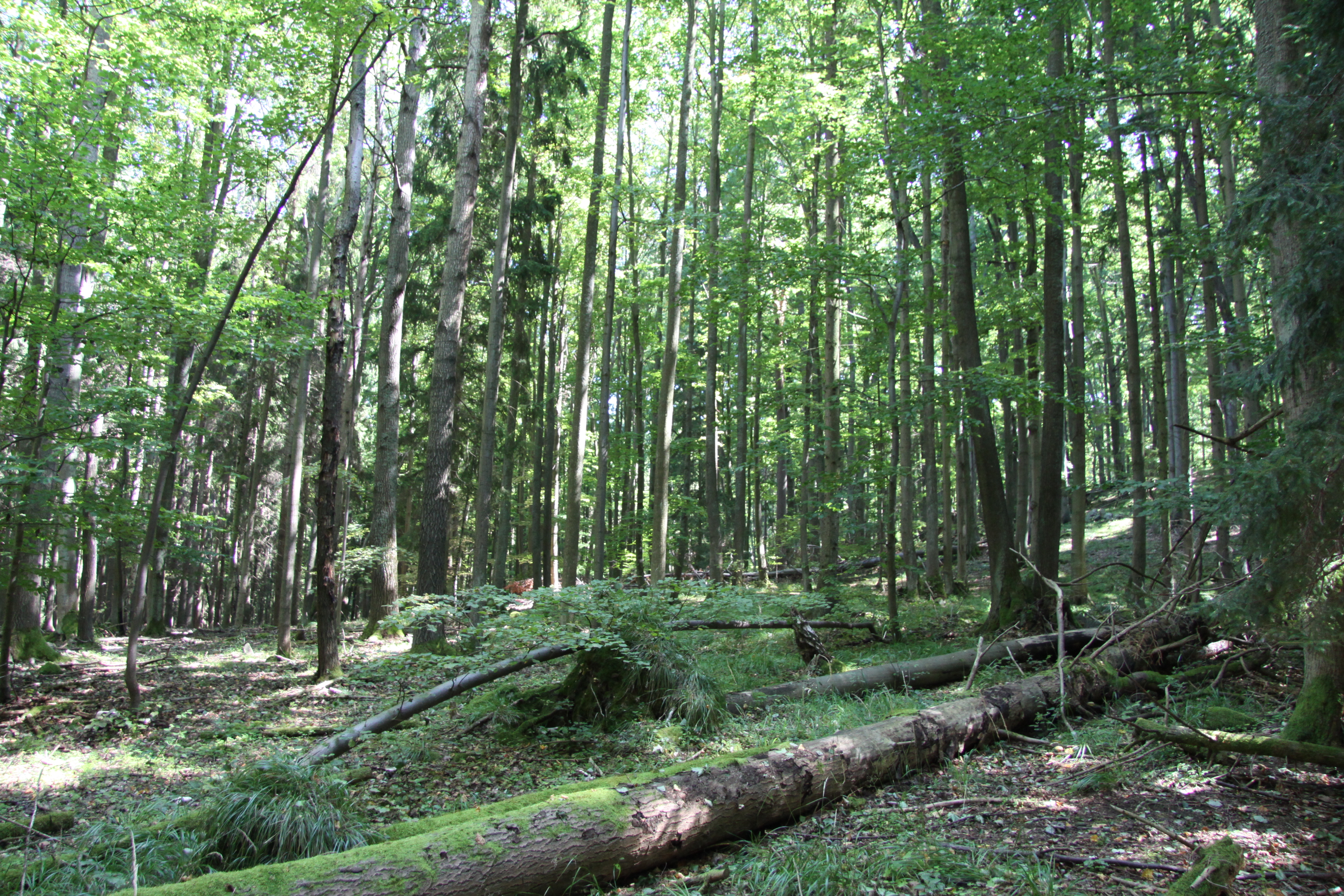 Natural reservation called "Hrby" near Vráž village, Písek District, Czech Republic